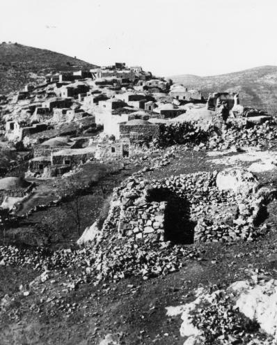 Ras Abu 'Ammar after conquest by Harel Brigade